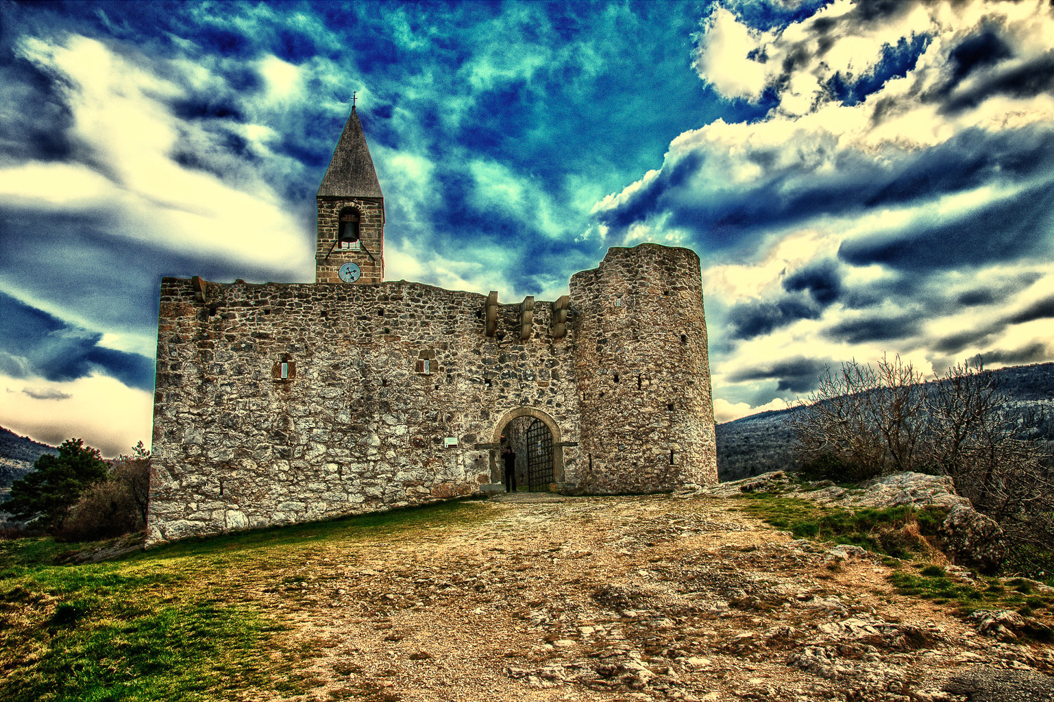 Hrastovlje